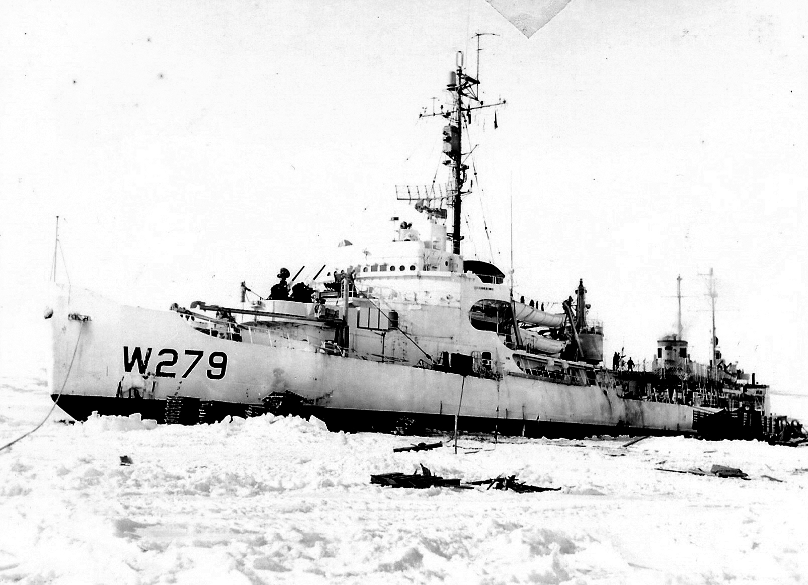 The U.S. Coast Guard icebreaker USCGC Eastwind (WAGB-279) was one of three icebreakers used by Operation Deep Freeze in the Ross Sea area in 1955-1956.